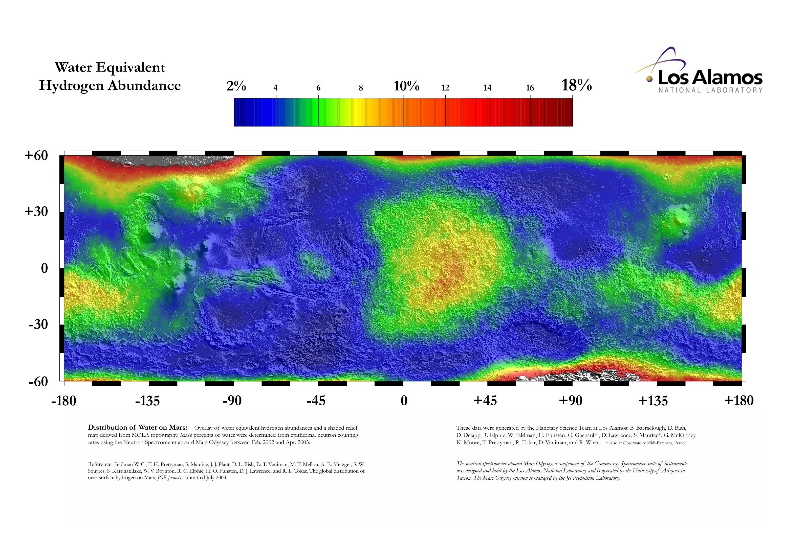 This map displays the proportion of water ice present in the upper meter of the Martian surface within 60 degrees of the equator. The percentages are derived through stochiometric calculations based on epithermal neutron fluxes. These fluxes were detected by the Neutron Spectrometer aboard the 2001 Mars Odyssey spacecraft. For more information see Feldman, W. C., Prettyman, T. H., Maurice, S., et al., Global distribution of near-surface hydrogen on Mars: Journal of Geophysical Research: Planets, v. 109, E09006